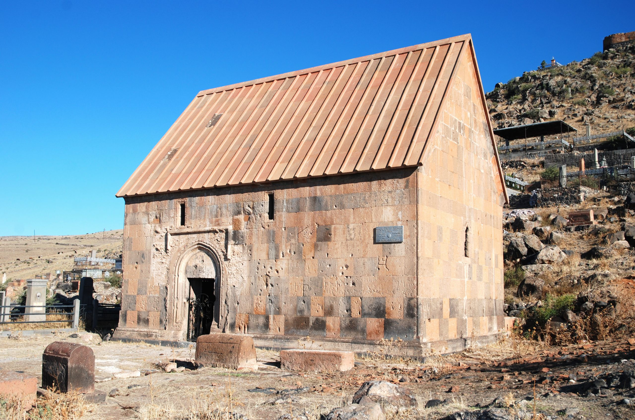 Kosh, Surb Grigor, 13ct.